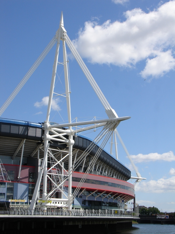 West Stand, Millennium Stadium, Cardiff, Wales. Photo made in May 2005 by Stan Zurek.